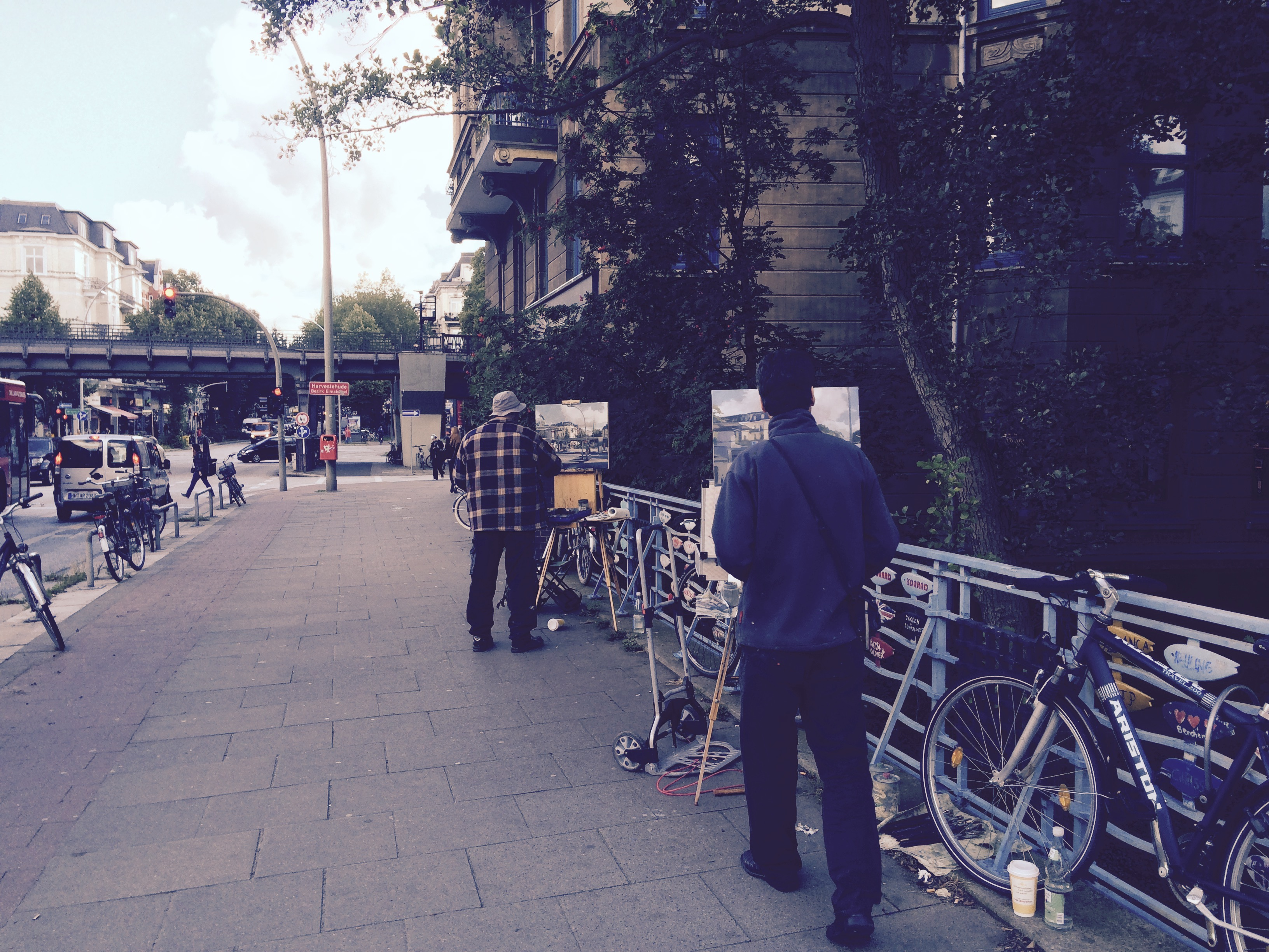 Outdoor painters on Isebrücke in Hamburg-Eppendorf, 2015